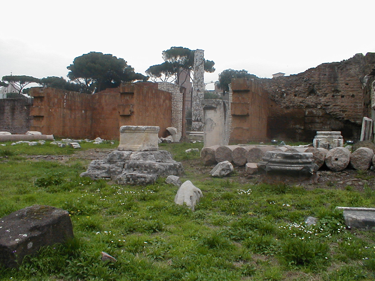 Basilica Aemilia in Rome, Italy.